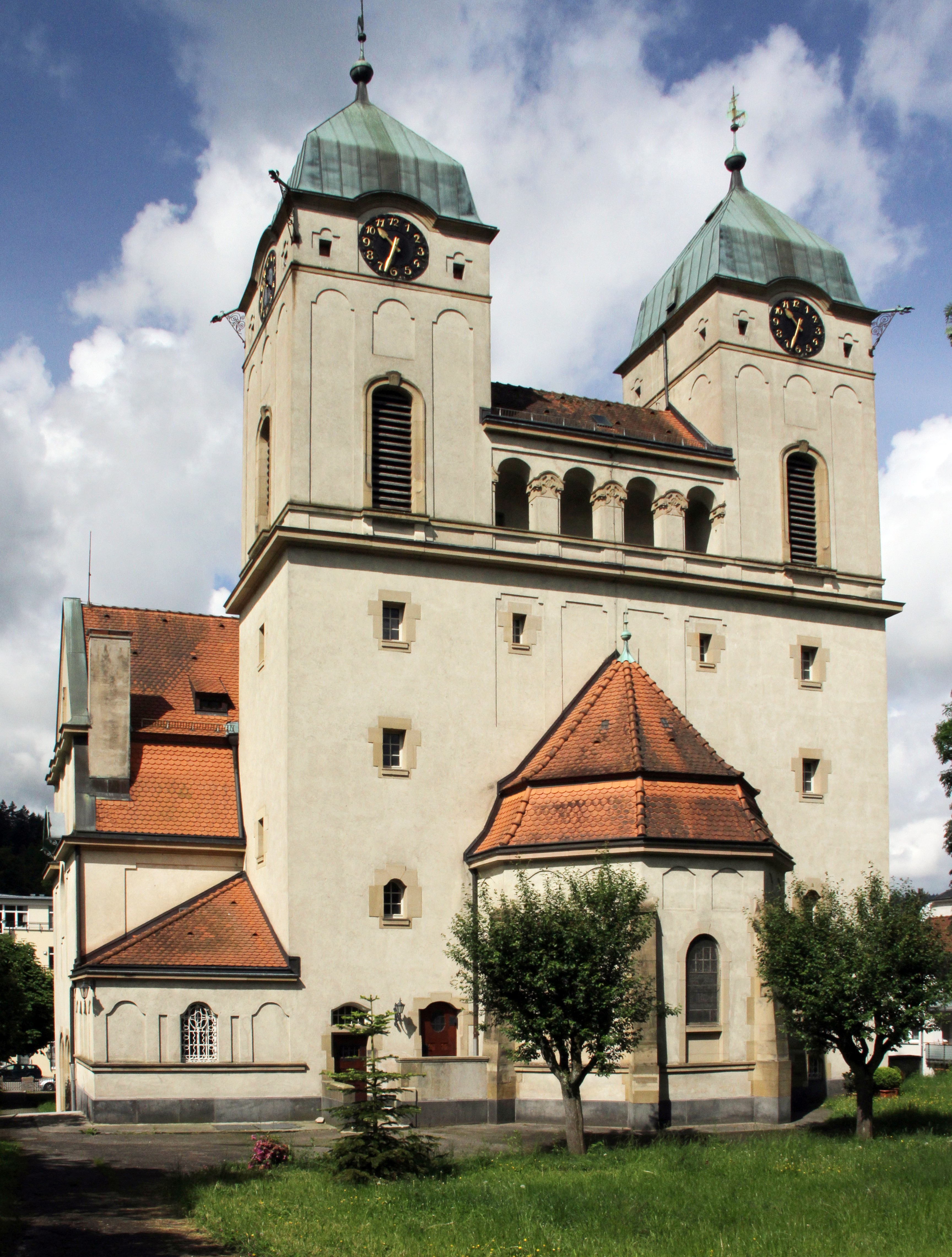 Luther Church Baden-Baden-Lichtental.